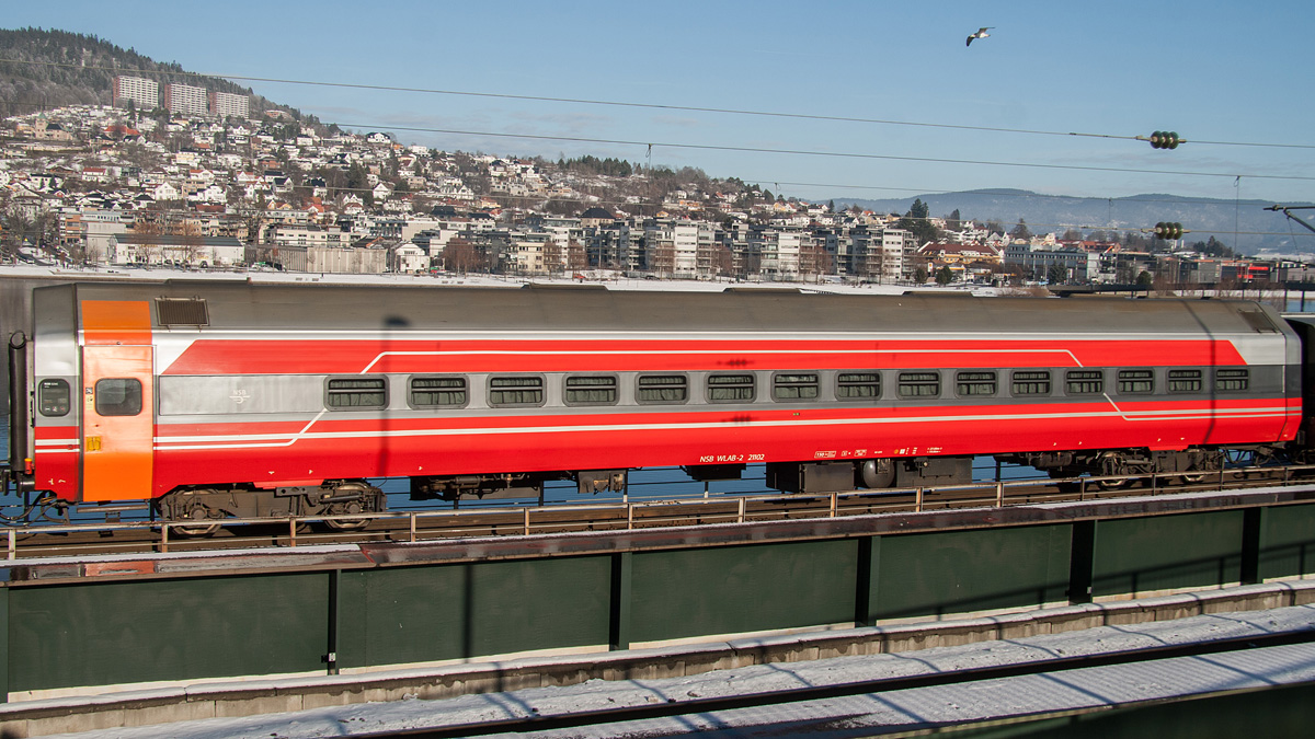 NSB WLAB-2 21102 sleeping car in Drammen. Under transfer in a daytime train.